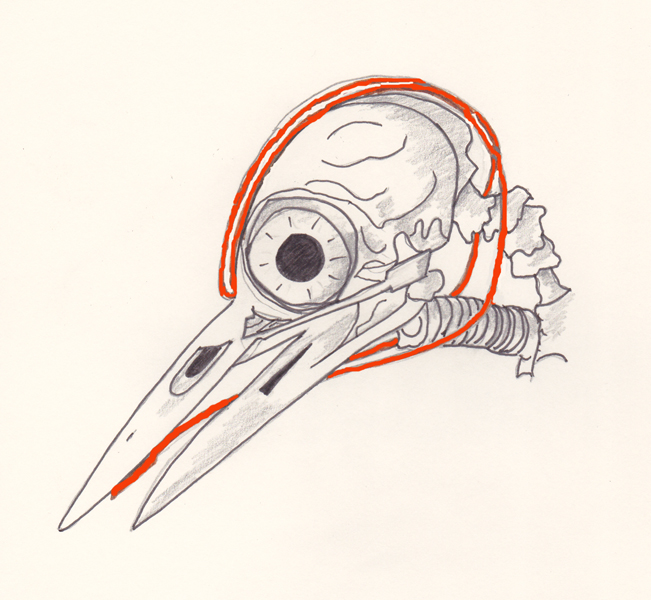 Great spotted woodpecker Dendrocopos major skull based on (2011). "Why Do Woodpeckers Resist Head Impact Injury: A Biomechanical Investigation". PLoS ONE 6 (10): e26490. and (2012) The Unfeathered Bird, Princeton: Princeton University Press, pp. 74–79 ISBN: 978-0-691-15134-2. (1987) New Generation Guide to the Birds of Britain and Europe, Austin: University of Texas Press, p. 16 ISBN: 978-0-292-75532-1.